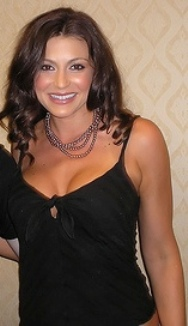 Cerina Vincent at a Chiller Theatre Convention in June 2006